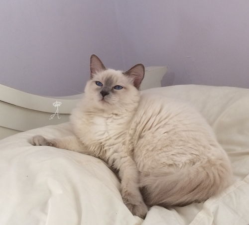 Picture of Azureys Princess who is an Old-Style Balinese Lilac Point cat from Azureys Cats owned by Edison A.